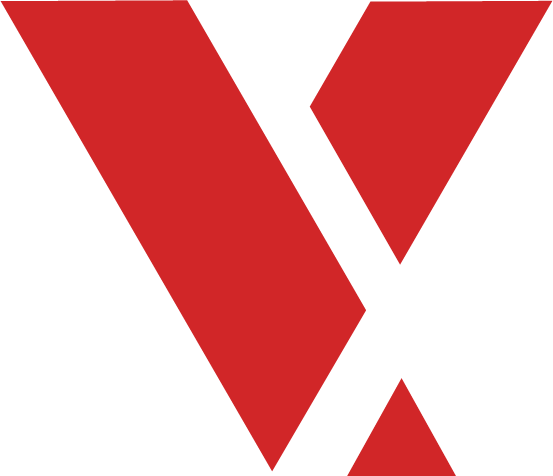 This symbol is a computer icon used by Wind River to represent its VxWorks operating system (OS)